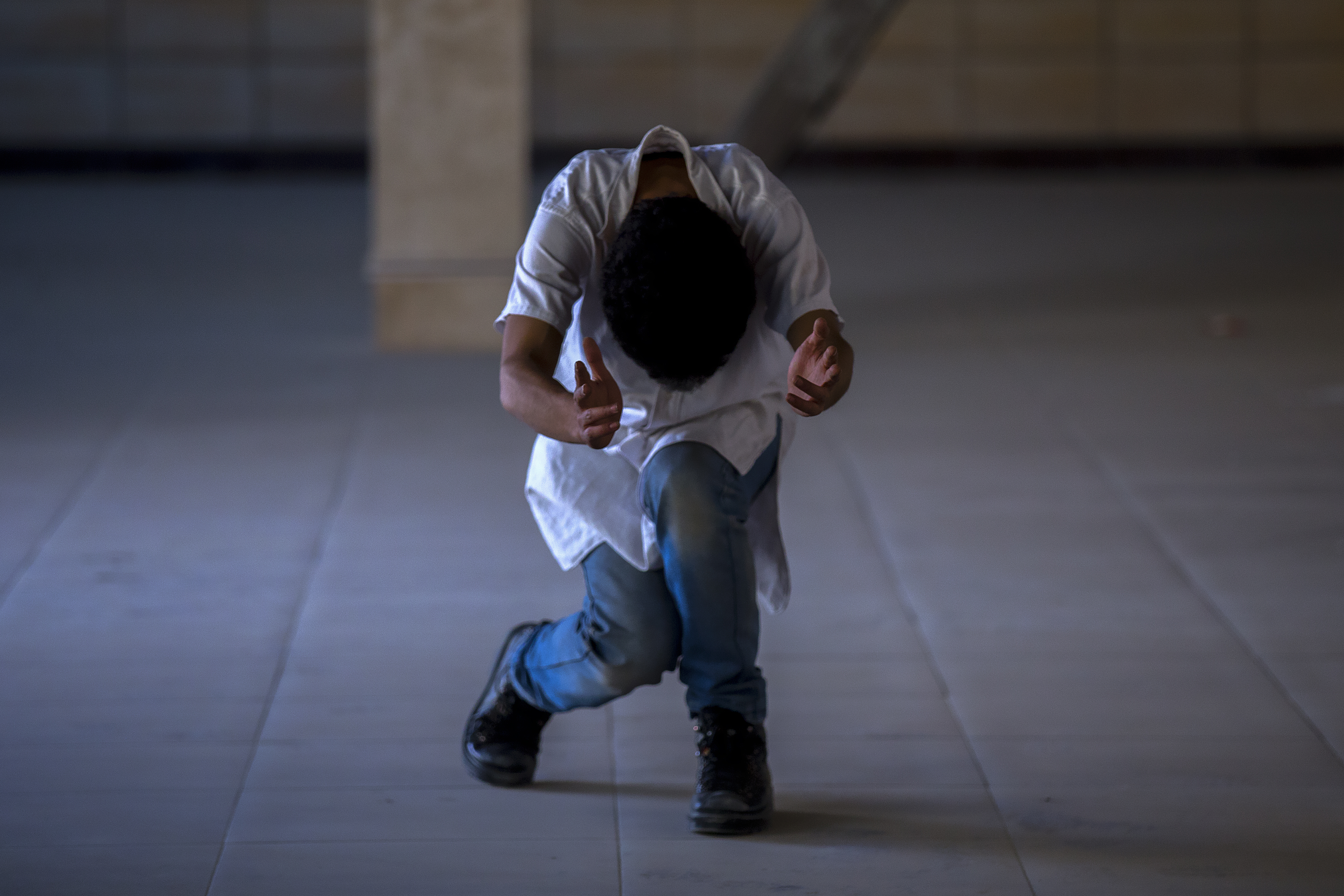 bak performance, plus 4 is a work demonstration in commision with Internation Fajr Festival by Garage Theater Company. In this demonstration/performance/lecture we see the way that Garage theater makes performance and finally they perform a piece of their last performance. Garage Theater Company has nominated as the best theater company in Iran. Actor: Hani Abdolmajid photographer: Mostafa Meraji